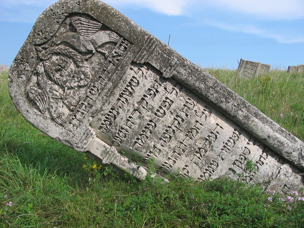 Jewish gravestone in Berezhany, western Ukraine